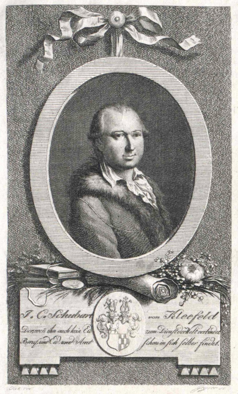 Johann Christian Schubart (1734-1787)